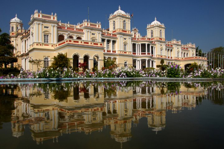 photo